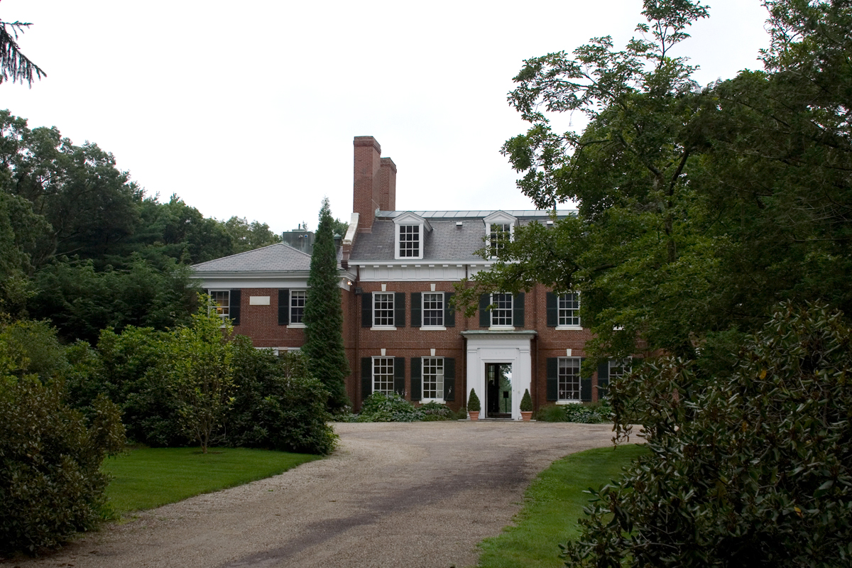 The Bradley Estate of Canton, Massachusetts from the driveway. Taken at facing SSW.